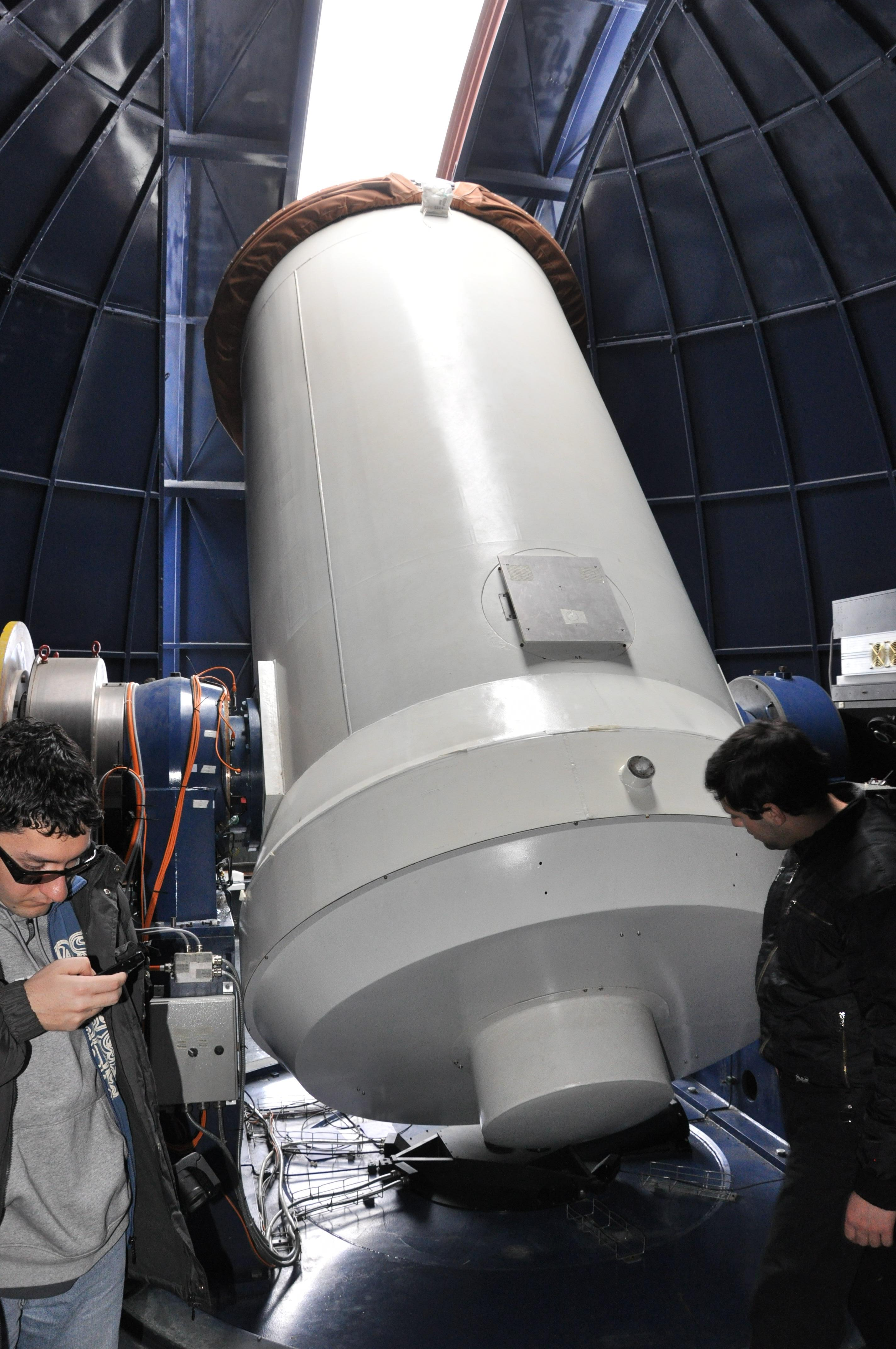 DSC_0733 Lunar Laser Ranging at the Observatoire de la Côte d'Azur (Calern, France)